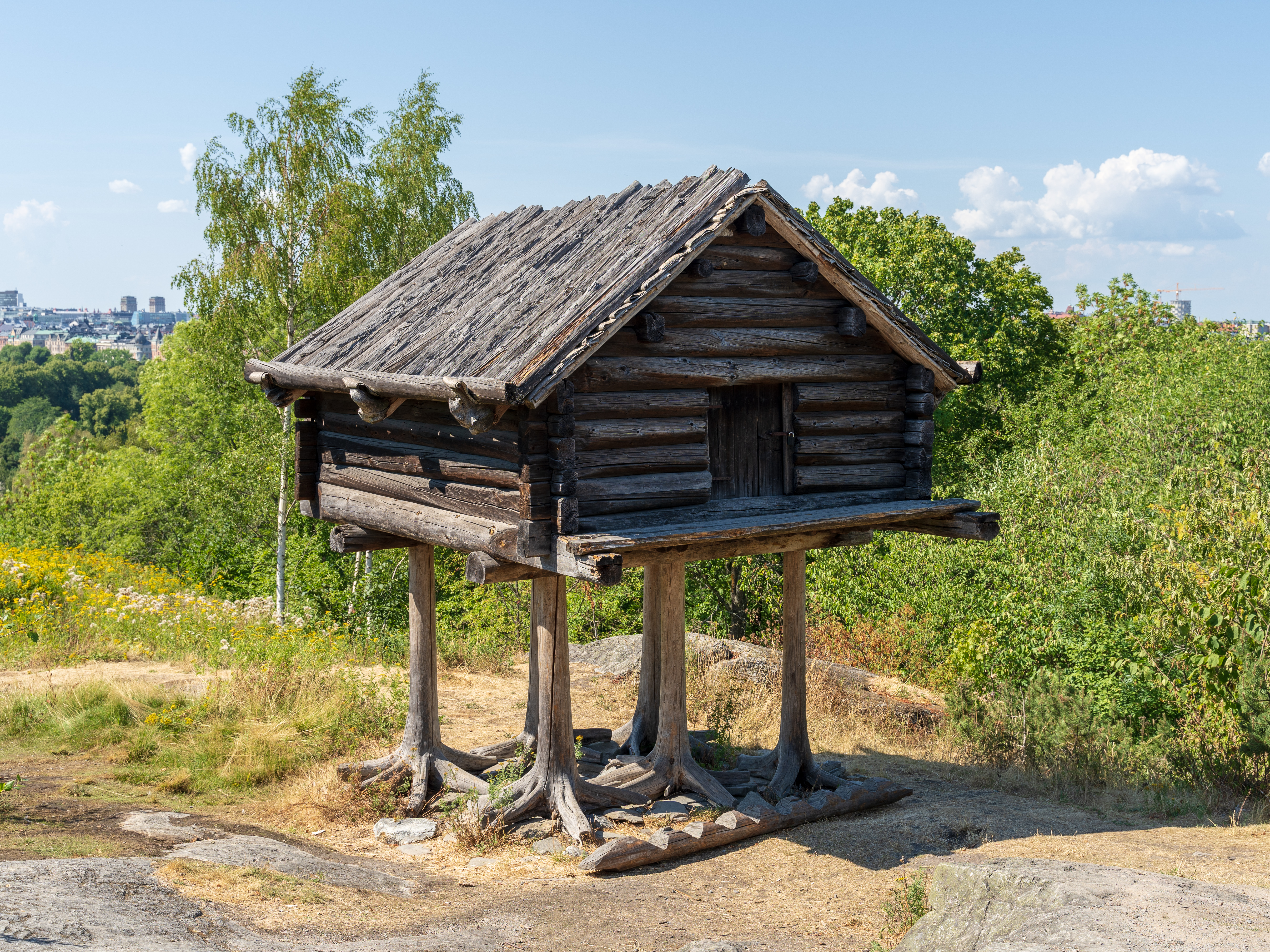 Images from Skansen by Stockholm. See my profile for image use.